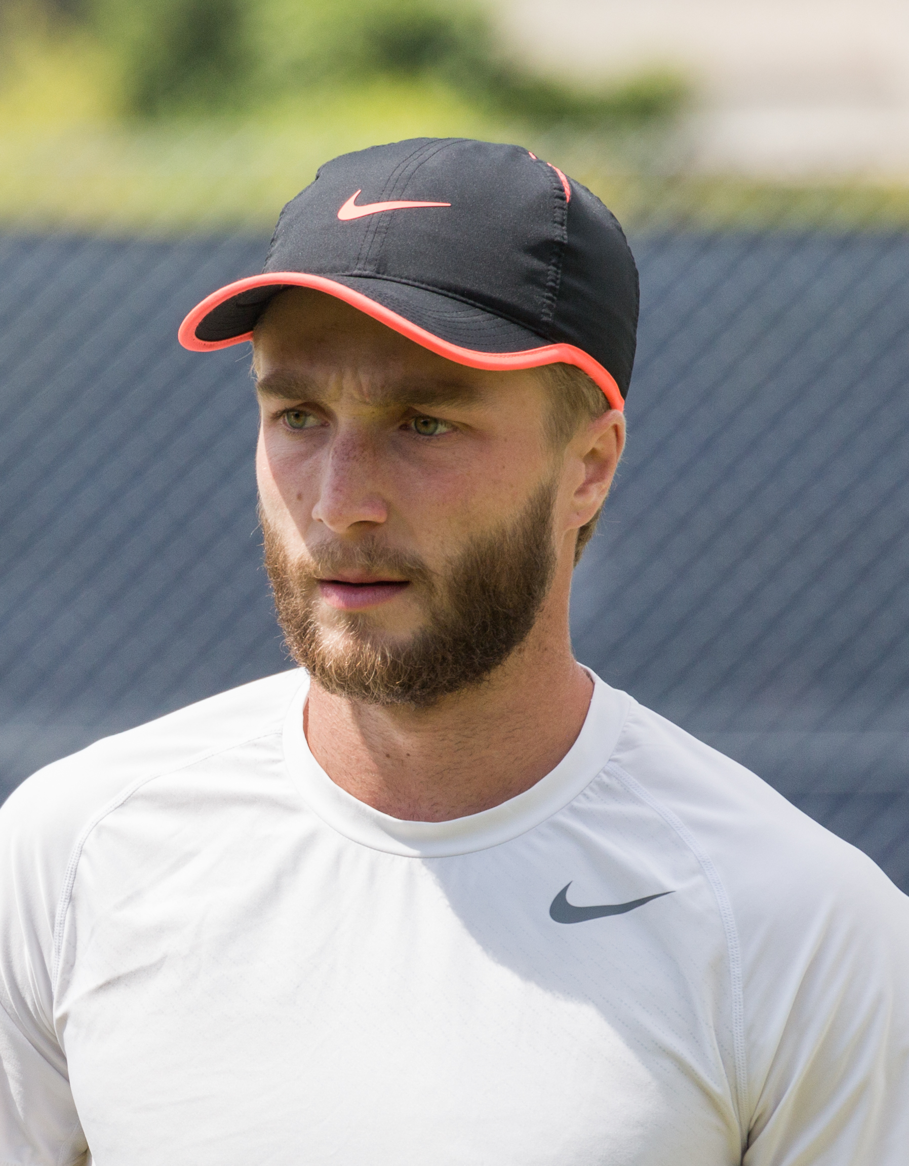 Liam Broady of Great Britain at the Aegon Surbiton Trophy in Surbiton, London.